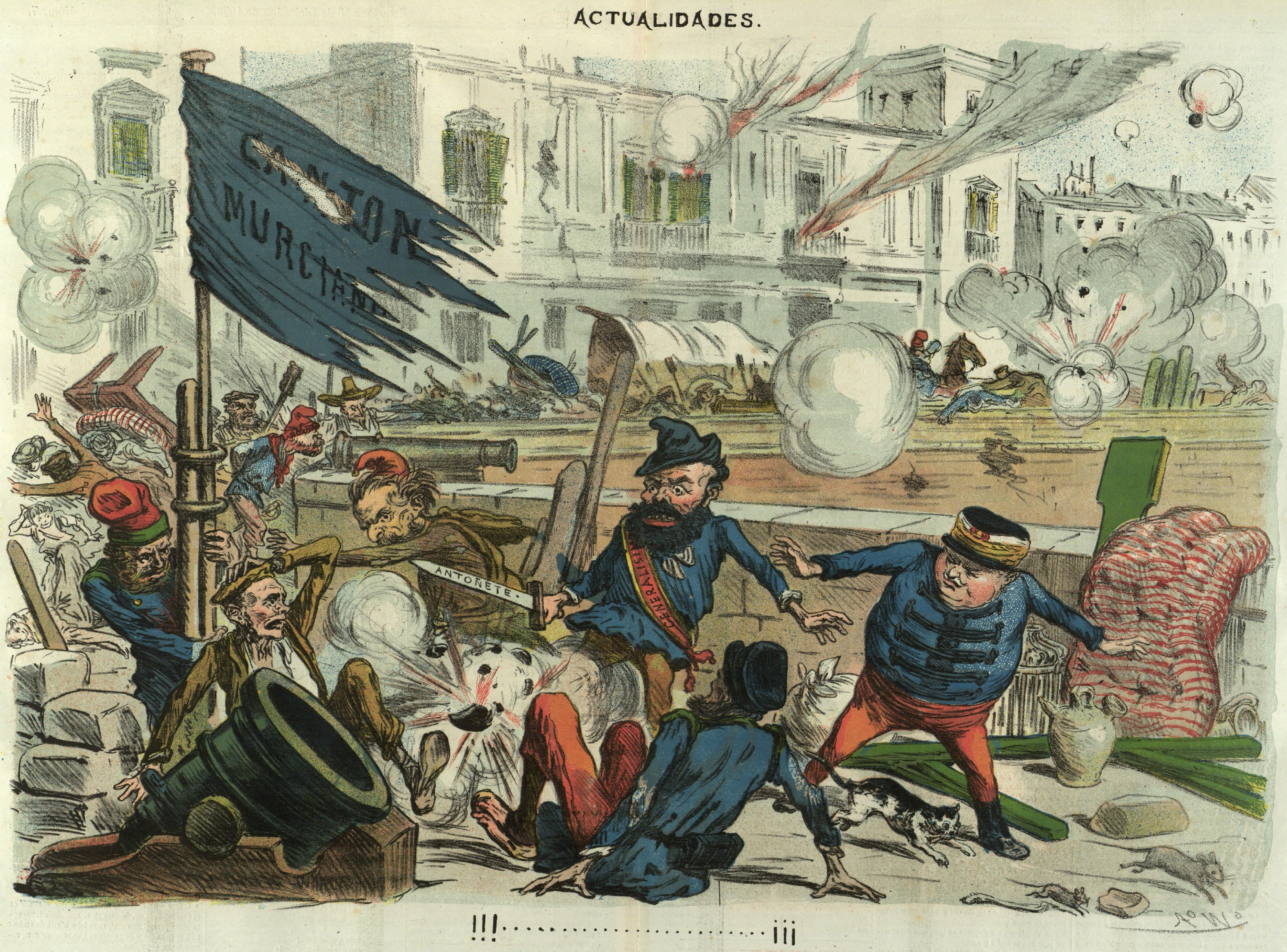 The governmental bombardment of Cartagena during its siege in 1873, in the context of the Cantonal rebellion, in a cartoon of the magazine La Madeja Política. From a federalist republican perspective, but contrary to the cantonalist revolutionaries, Tomàs Padró shows Cartagena as a city badly defended and taken by misery.